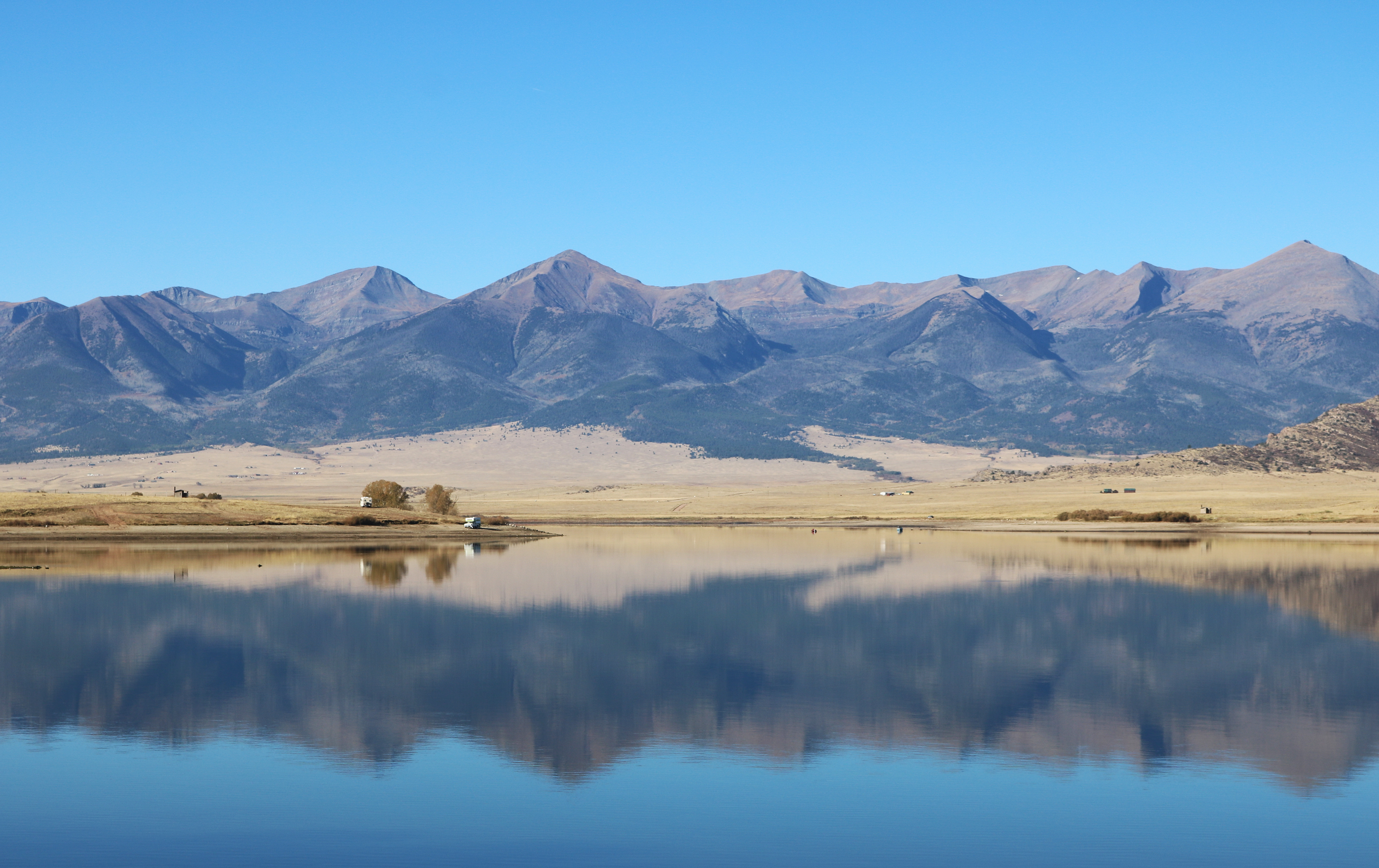 A view across DeWeese Reservoir in Custer County, Colorado. The view includes some of the Sangre de Cristo Mountains.